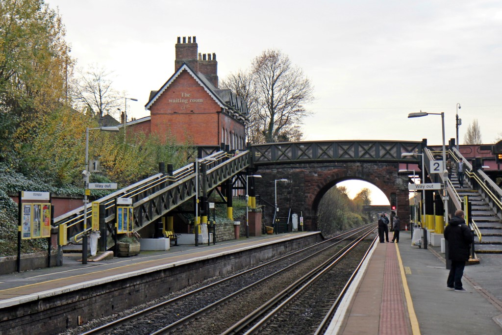 Looking west, Hunts Cross railway station